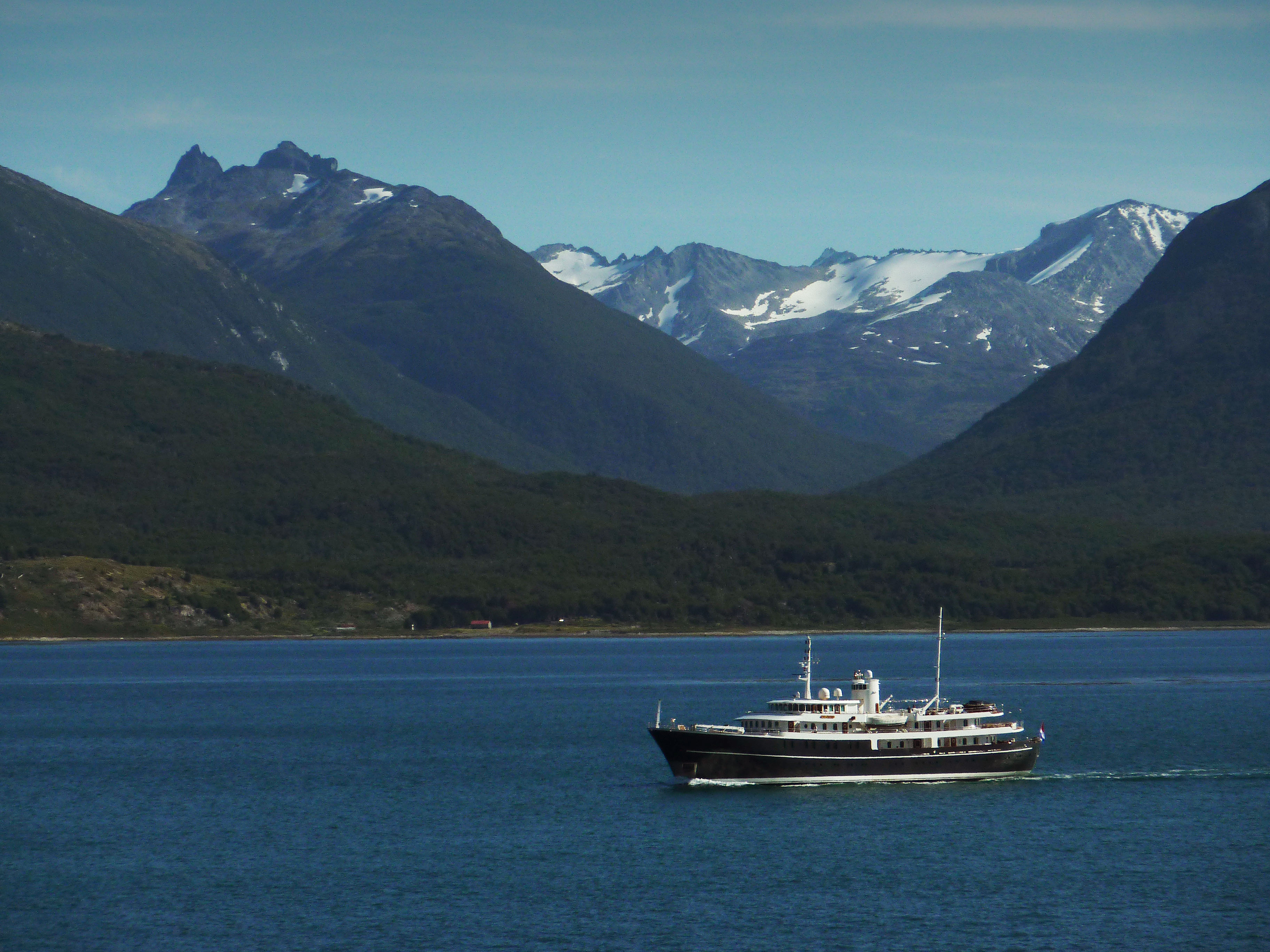 Antarctic Cruise: The Beagle Channel During his 1831 world voyage, Charles Darwin travelled through this somewhat narrow body of water on his way to the Pacific Ocean. Later named for Darwin's ship, the Beagle, it's one of the most beautiful water passageways on the planet. In modern times, it's the favourite route of cruise ships travelling south to Ushuaia and Antarctica because unlike the often turbulent South Pacific Ocean, its waters are sheltered and calm. In addition, it's fronted by some of the most impressive glaciers in South America.